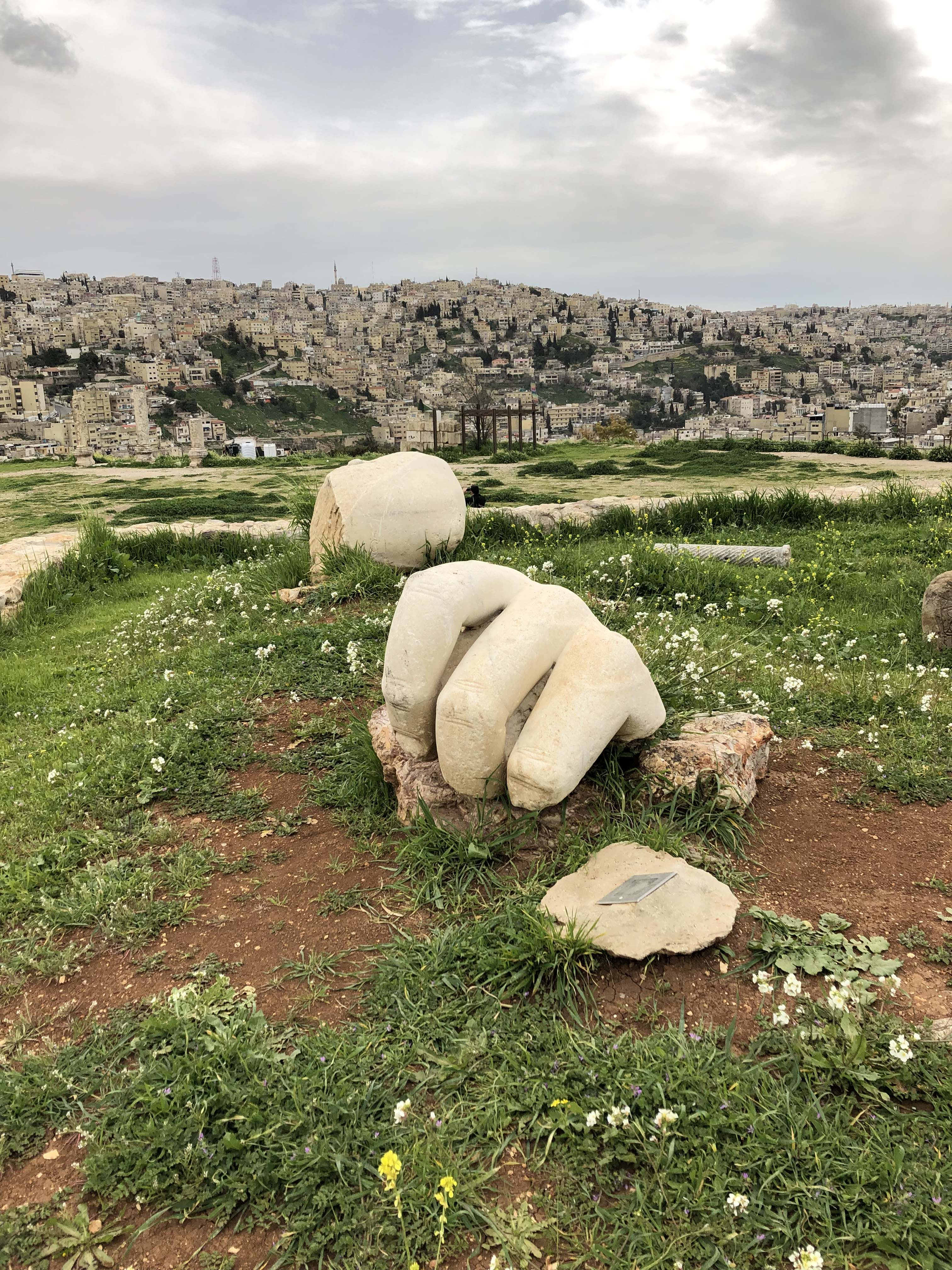 Hercules temple Pieces of giant statue